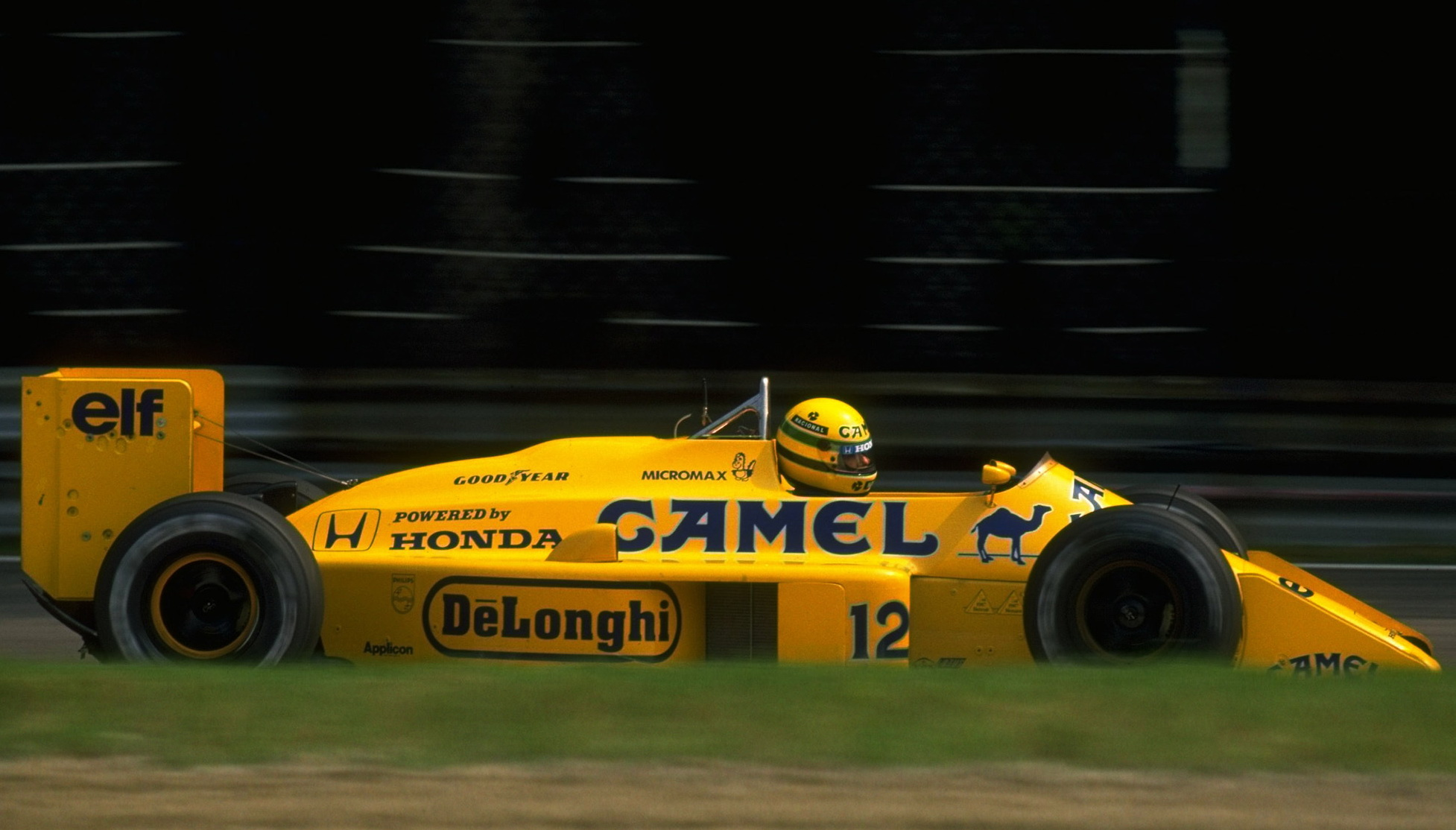 The Lotus 99T of Ayrton Senna, used in the 1987 Formula One season.